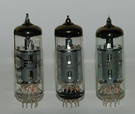 A comparison of vacuum tubes: 6P1P by Svetlana 1971 (left), 6P1P-EV by Svetlana 1986, 6P1 by Beijing Electron Tube Factory 1986 (right).